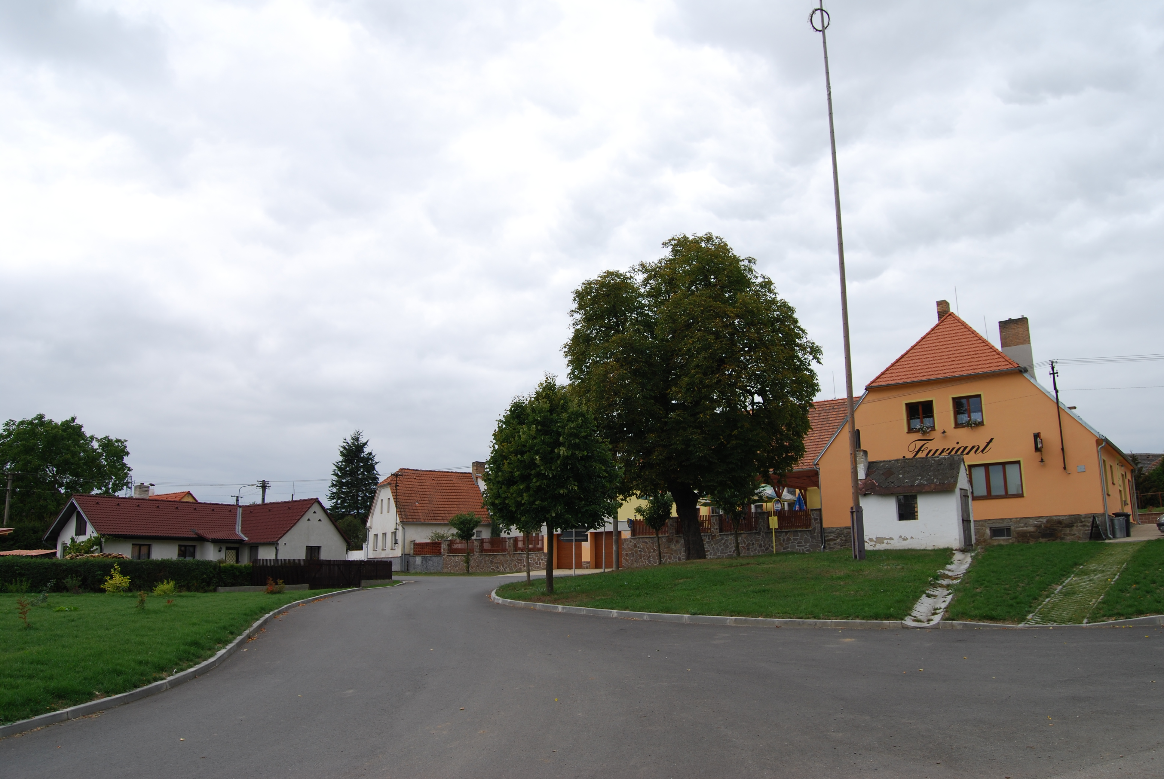 Cerhonice village in Pisek District, Czech Republic.